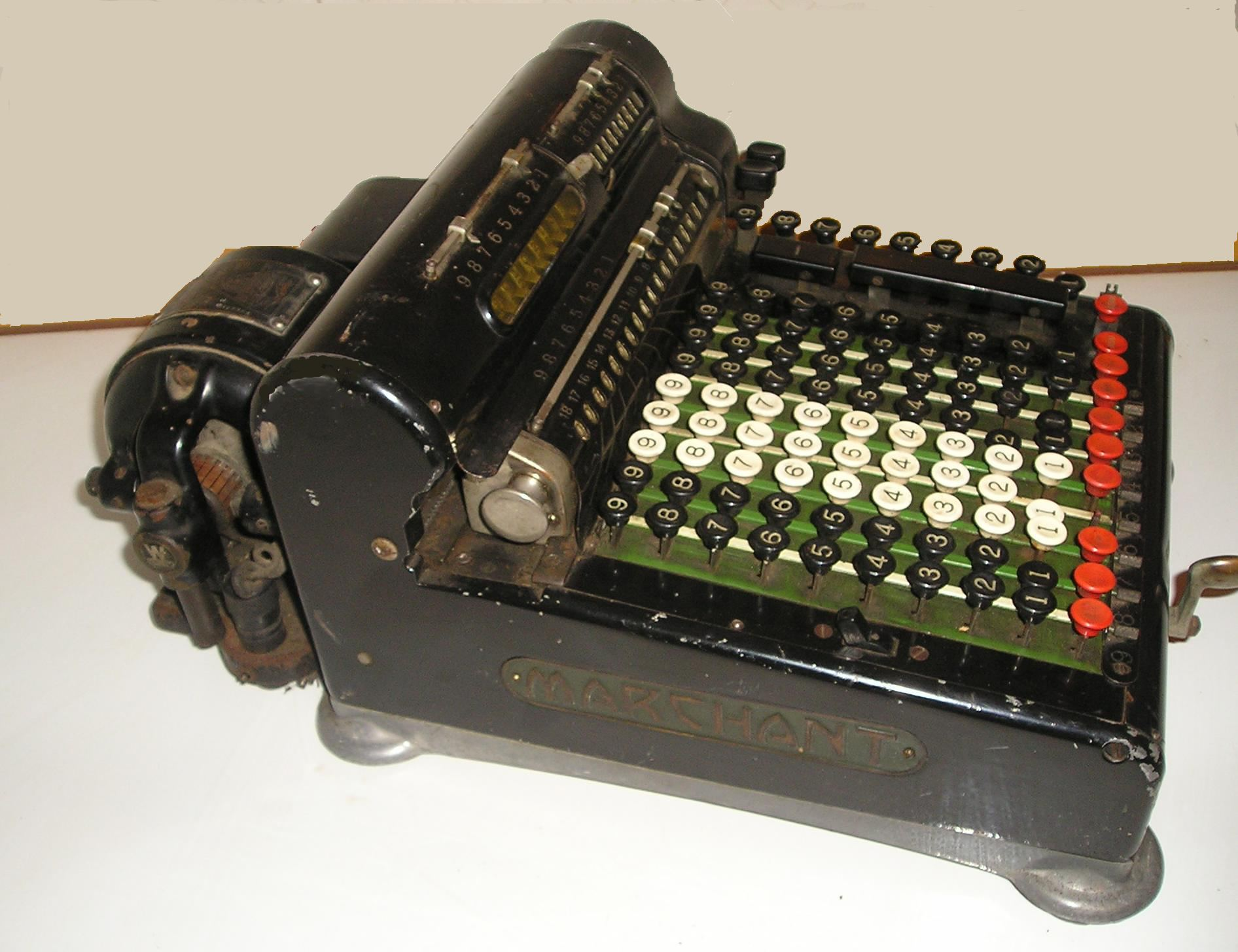 Marchant EB-9 calculator (1920 circa). Based on adapting segments by Carl Friden